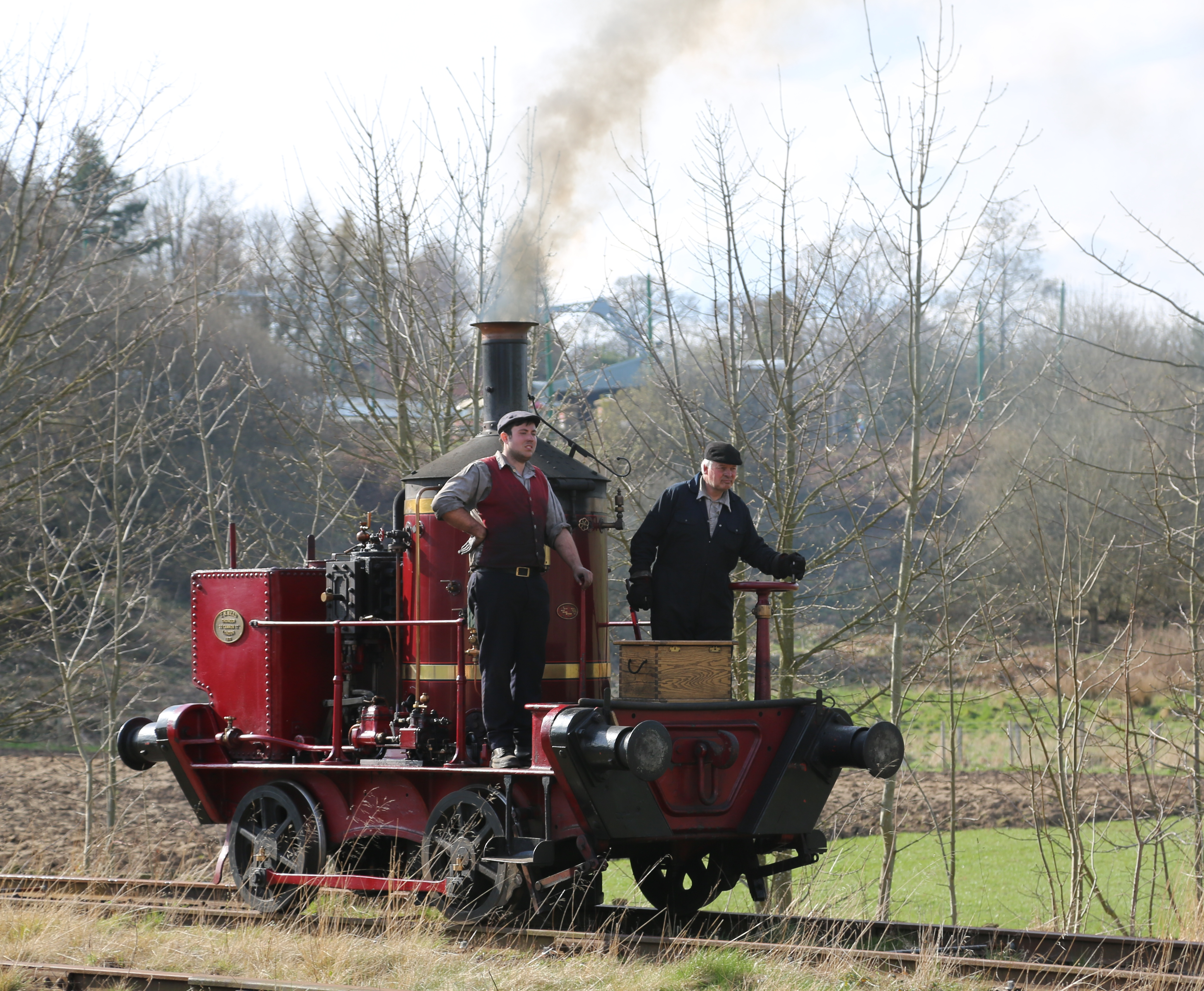 Coffee Pot No 1 in steam at Beamish Museum. It's on the Colliery railway, in the sidings north of Pit Village. This is the view to the NW - in the distance behind the chimney can be seen the arm of the rail crane installed near the tram depot.